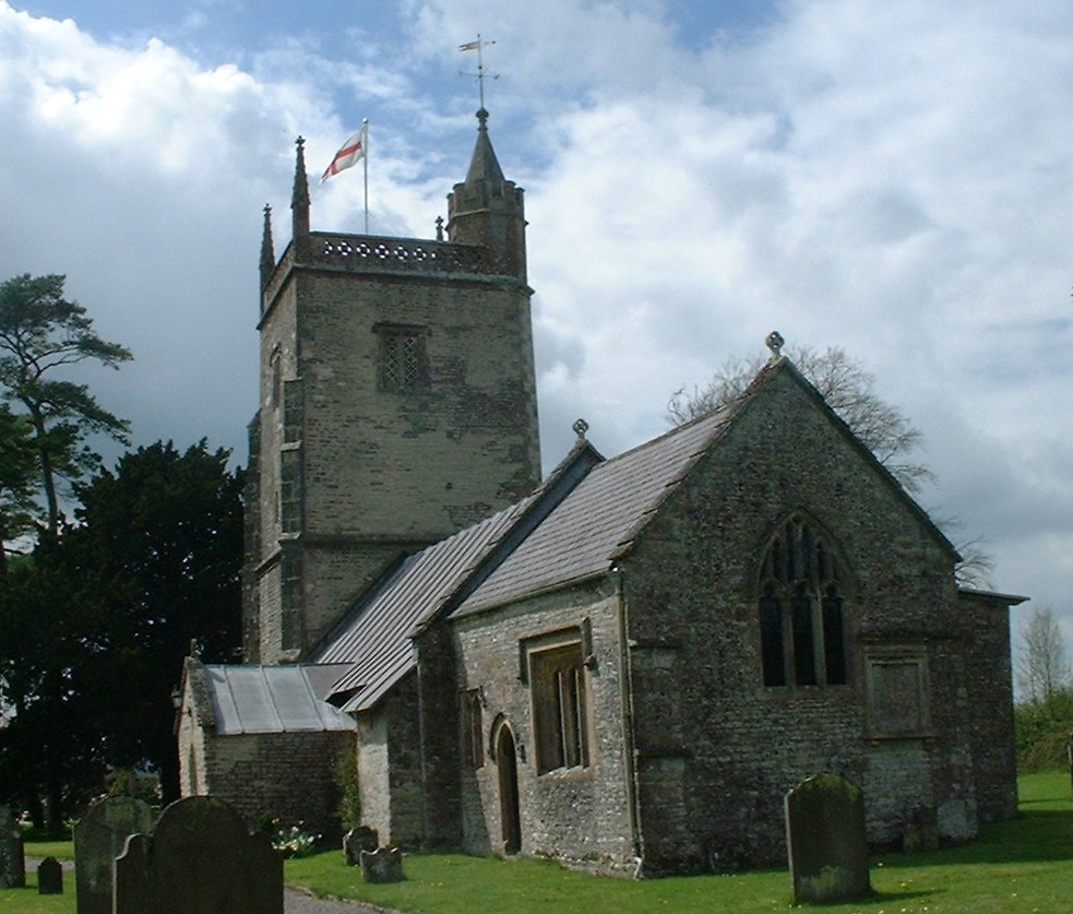 Church of St. Margaret at Hinton Blewett. Taken by Rod Ward 27th April 2006